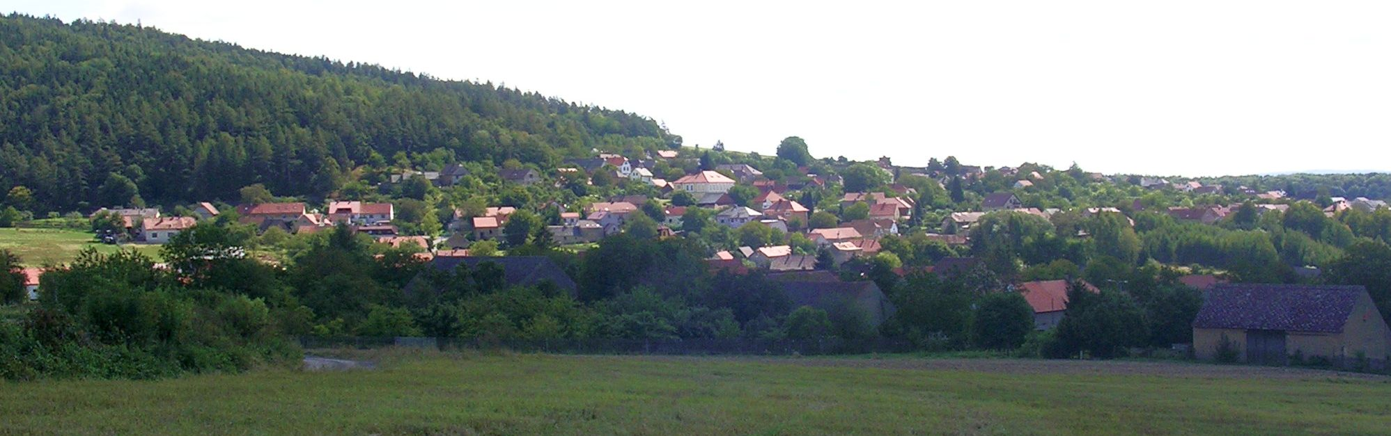 Kublov, Beroun District, Central Bohemian Region, the Czech Republic. - Google Maps - Google Earth